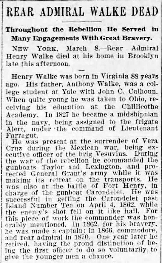 Rear Admiral Henry Walke Dead, The Times, Philadelphia, Pennsylvania, 9 Mar 1896, Page 1